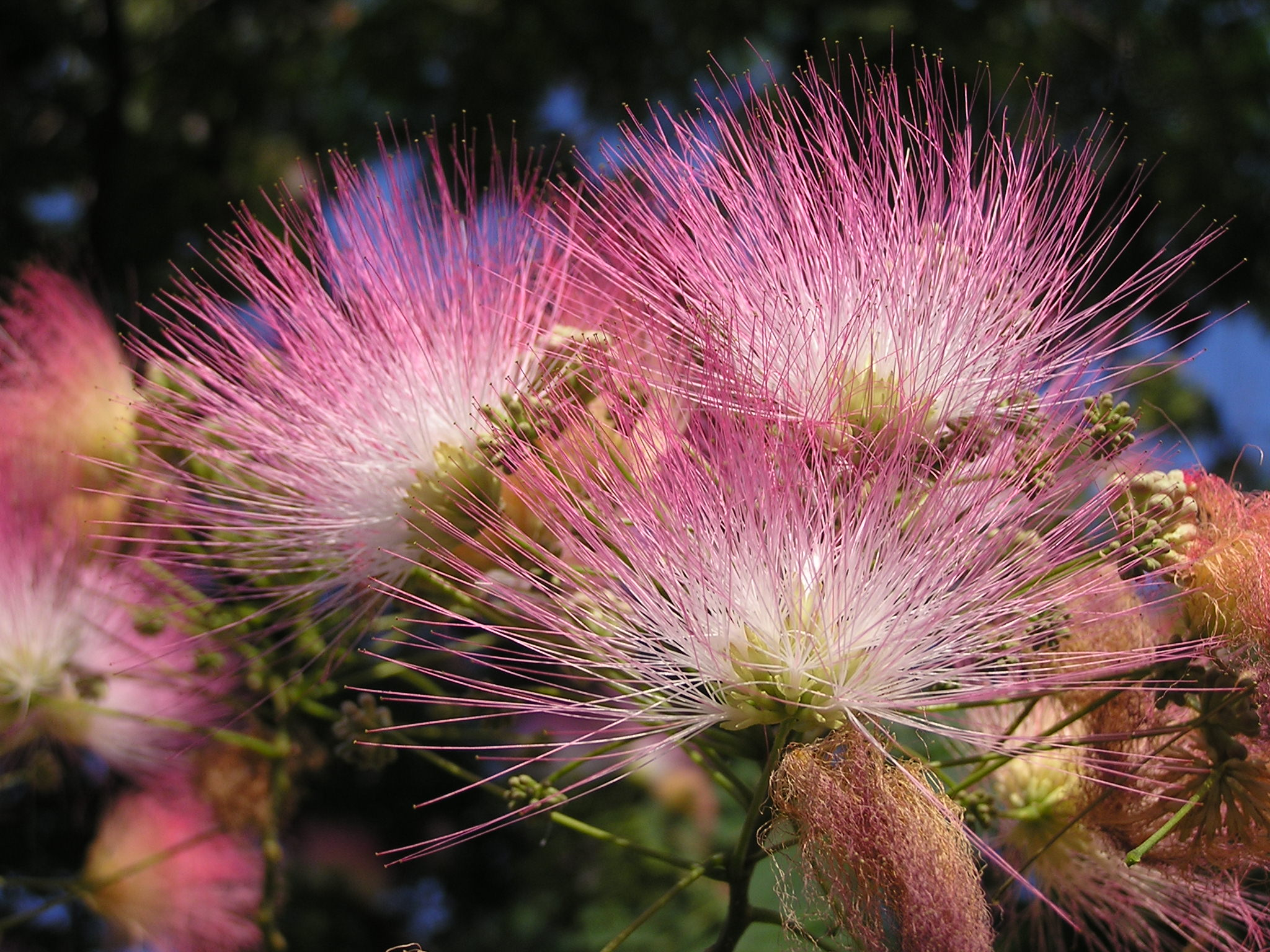 flowers of Albizzia julibrissin